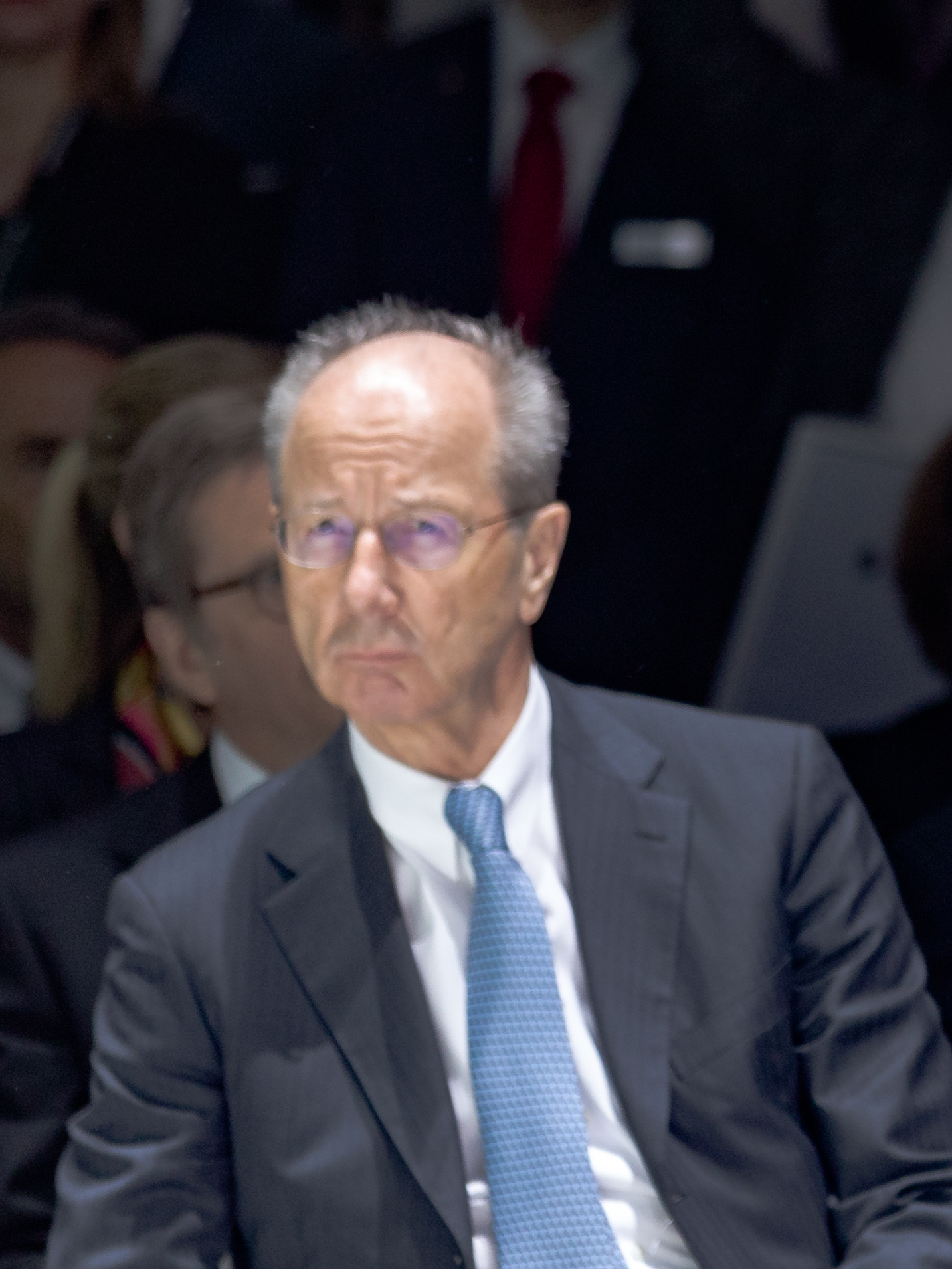 Geneva International Motor Show 2018